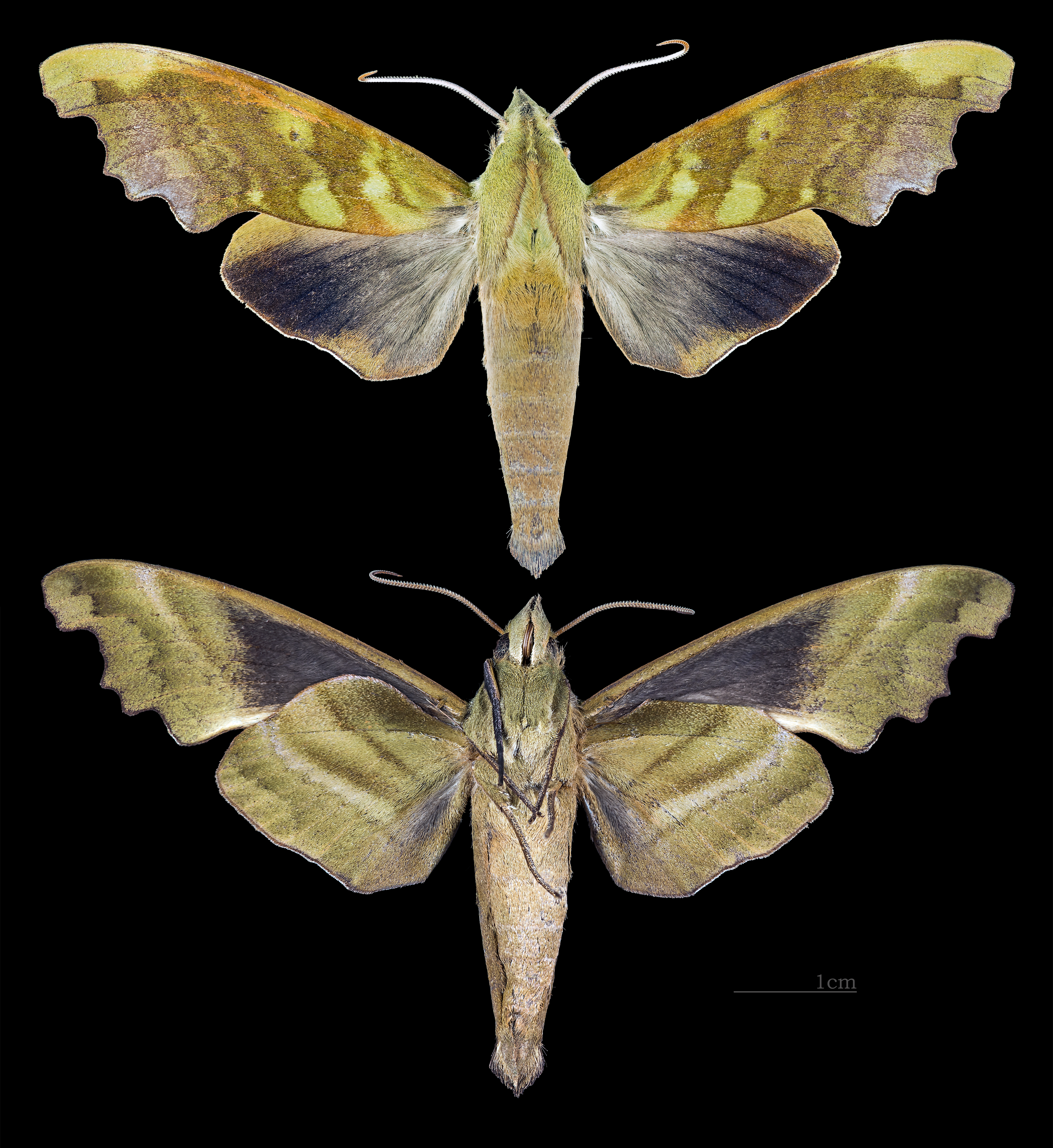 Stolidoptera tachasara - Two views of same specimen Collection of the Mathematician Laurent Schwartz